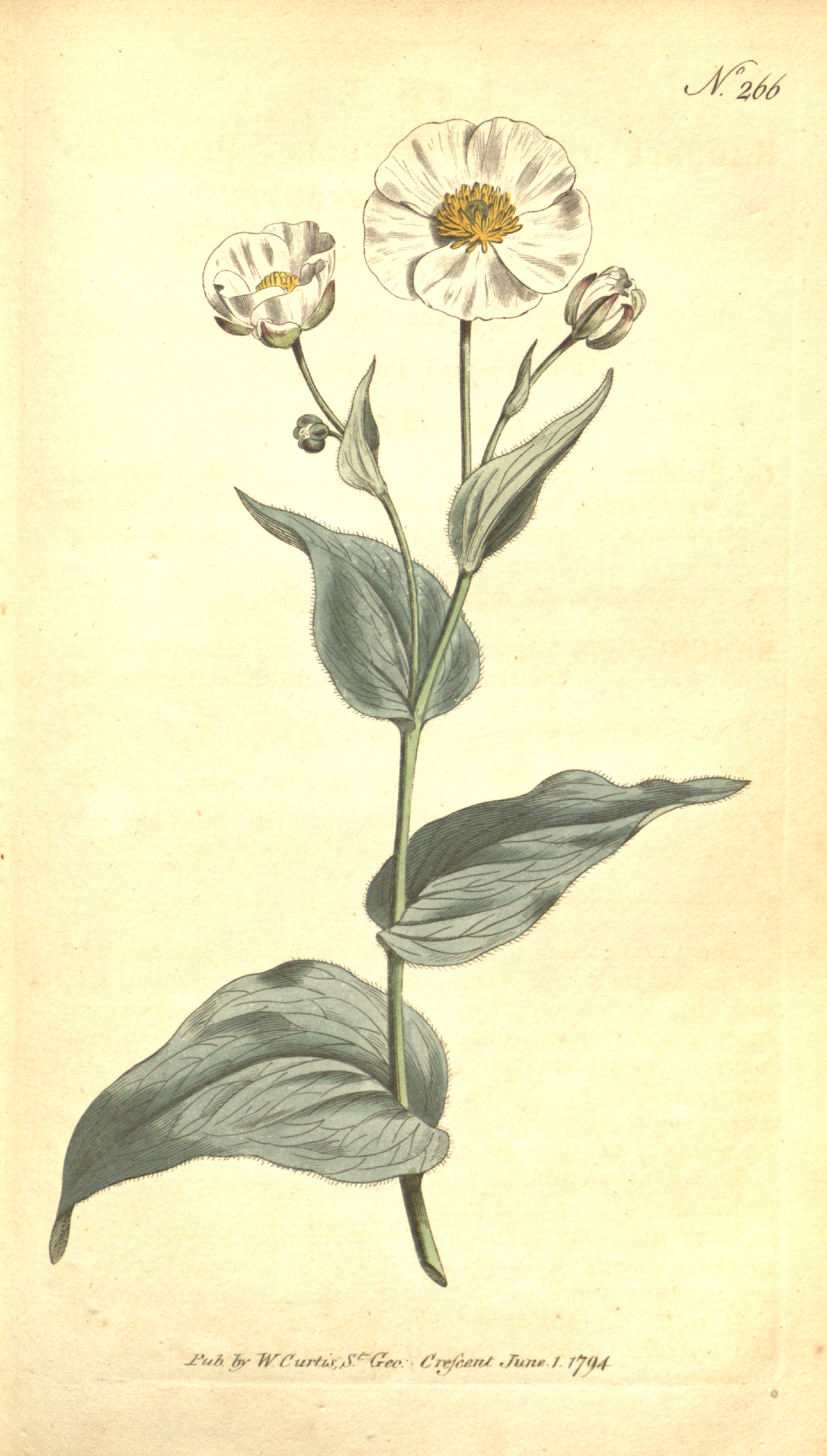 This is a plate from The Botanical Magazine, Volume 8.